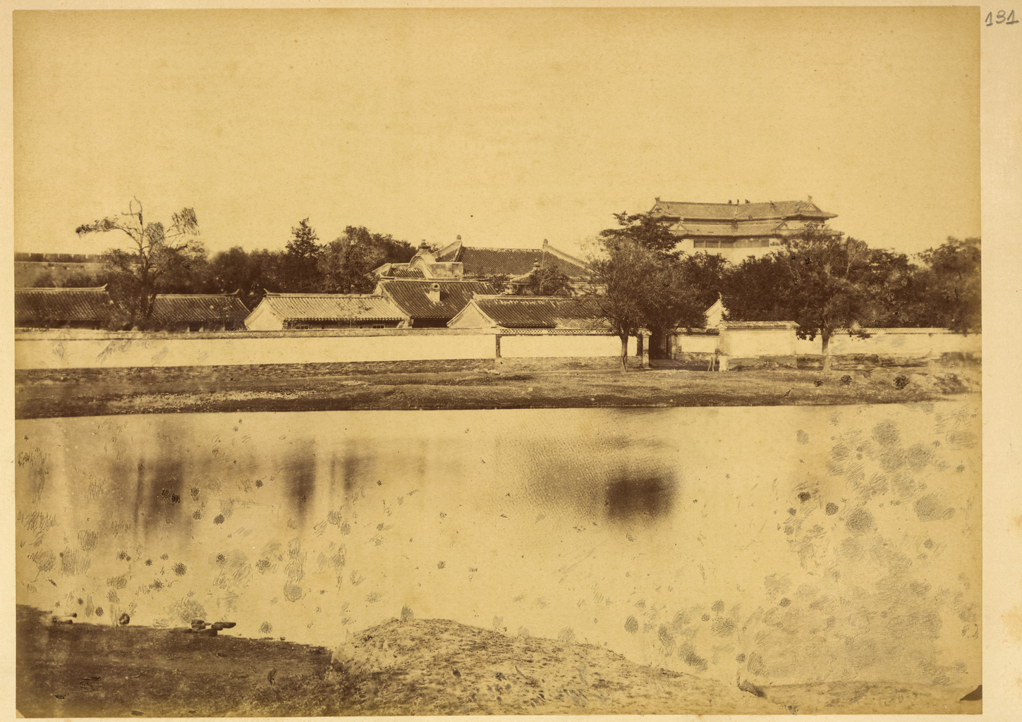 In 1874-75, the Russian government sent a research and trading mission to China to seek out new overland routes to the Chinese market, report on prospects for increased commerce and locations for consulates and factories, and gather information about the Dungan Revolt then raging in parts of western China. Led by Lieutenant Colonel Iulian A. Sosnovskii of the army General Staff, the nine-man mission included a topographer, Captain Matusovskii; a scientific officer, Dr. Pavel Iakovlevich Piasetskii; Chinese and Russian interpreters; three non-commissioned Cossack soldiers; and the mission photographer, Adolf Erazmovich Boiarskii. The mission proceeded from Saint Petersburg to Shanghai via Ulan Bator (Mongolia), Beijing, and Tianjin, and then followed a route along the Yangtze River, along the Great Silk Road through the Hami oasis, to Lake Zaysan, back to Russia. Boiarskii took some 200 photographs, which constitute a unique resource for the study of China in this period. Most of the photographs are included in this album, which later became part of the Thereza Christina Maria Collection assembled by Emperor Pedro II of Brazil and given by him to the National Library of Brazil. Buildings; Memory of the World; Missions; Rivers; Russian Orthodox Church